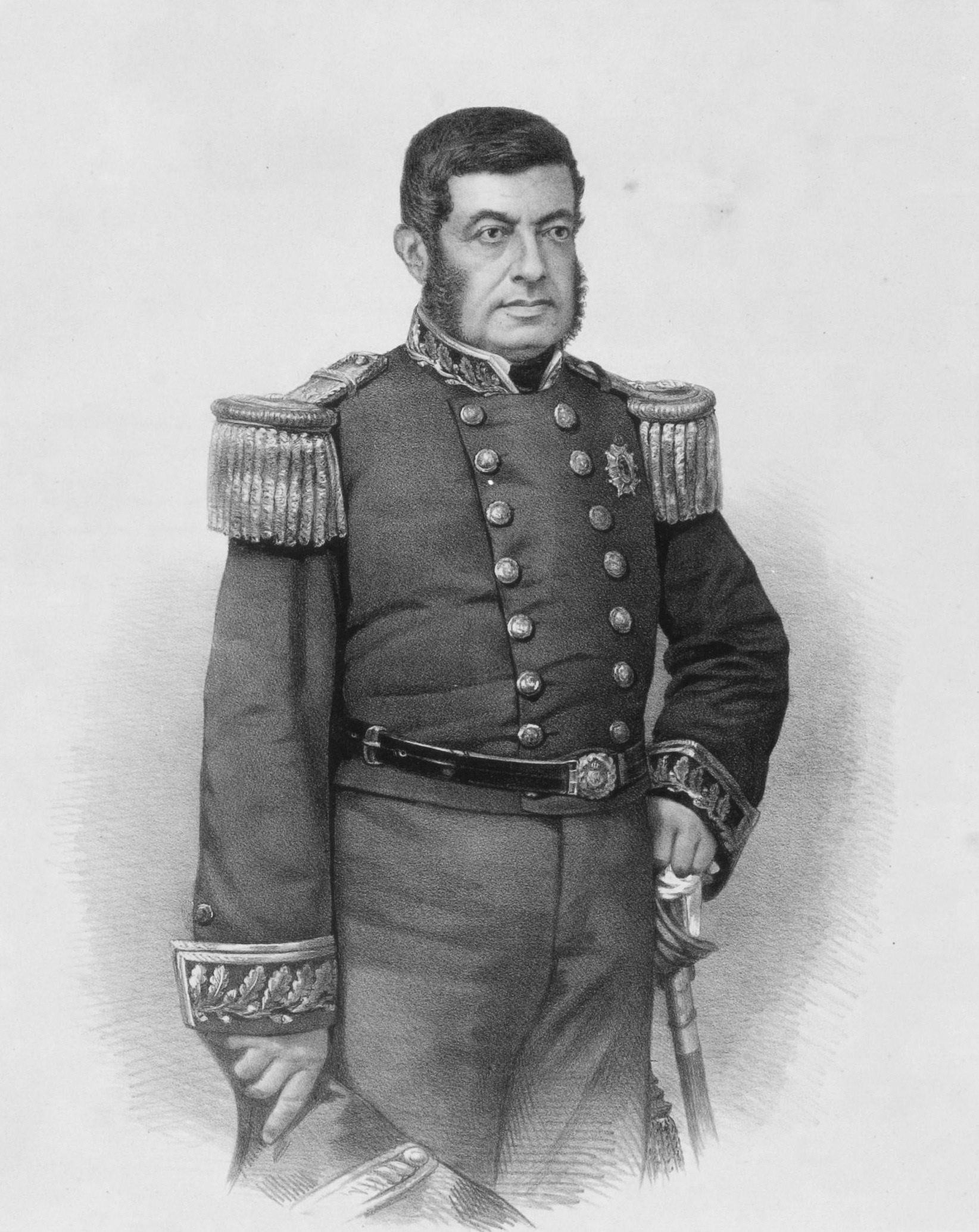 Joaquim José Inácio, Viscount of Inhaúma, c.1861